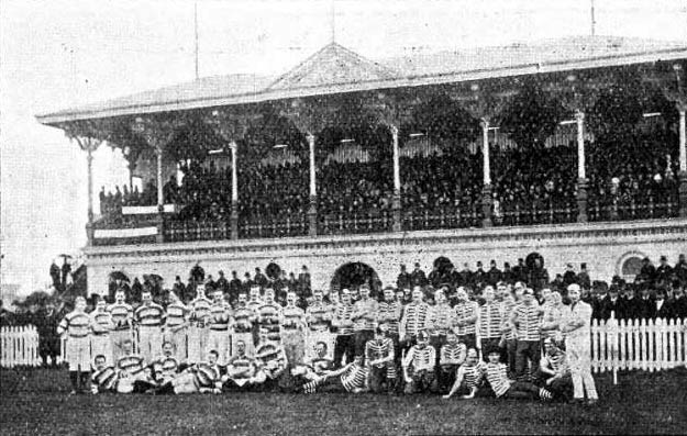 South Melbourne team that defeated England by 7 goals to 3.